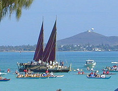 The Hawaiian voyaging canoe,Hokulea, arrives at Kailua Beach, May 1, 2005. Photographed by Eric Guinther.